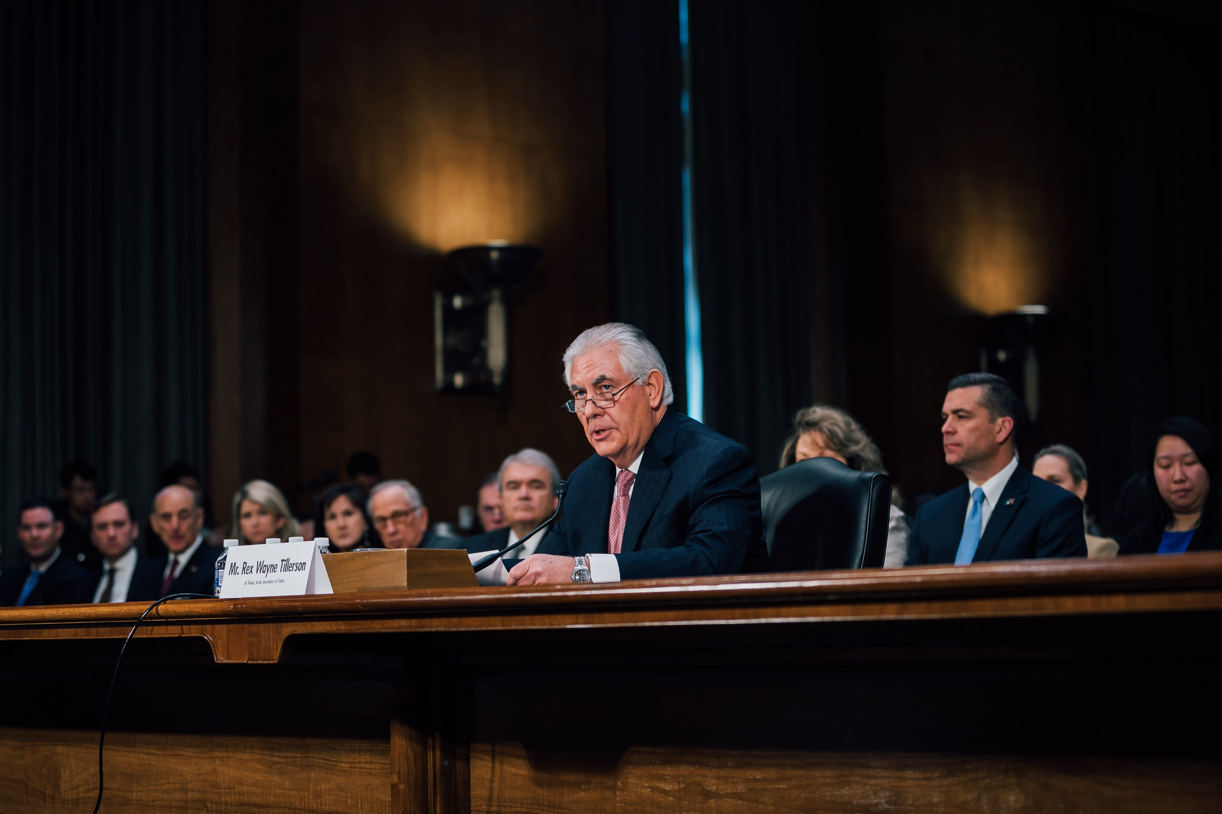 Rex Tillerson, President-elect Donald Trump's choice for Secretary of State, at his confirmation hearing